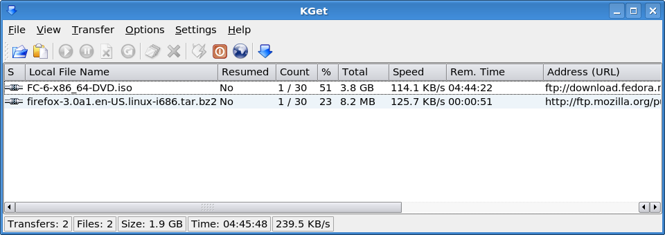 This is a screenshot of a KGet downloading 2 files.